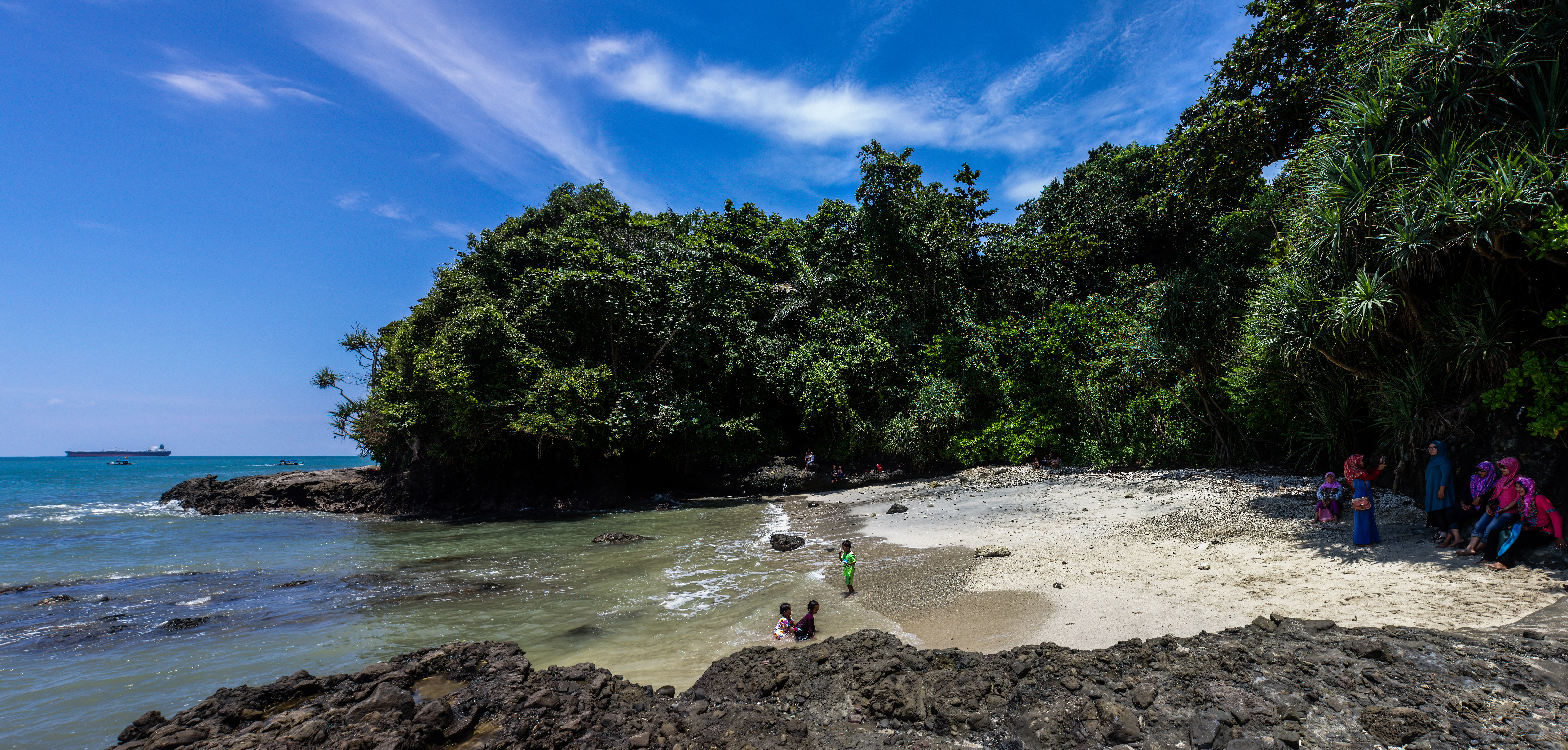 Karang Bolong Beach (south side), Nusakembangan, Cilacap 2015-03-21